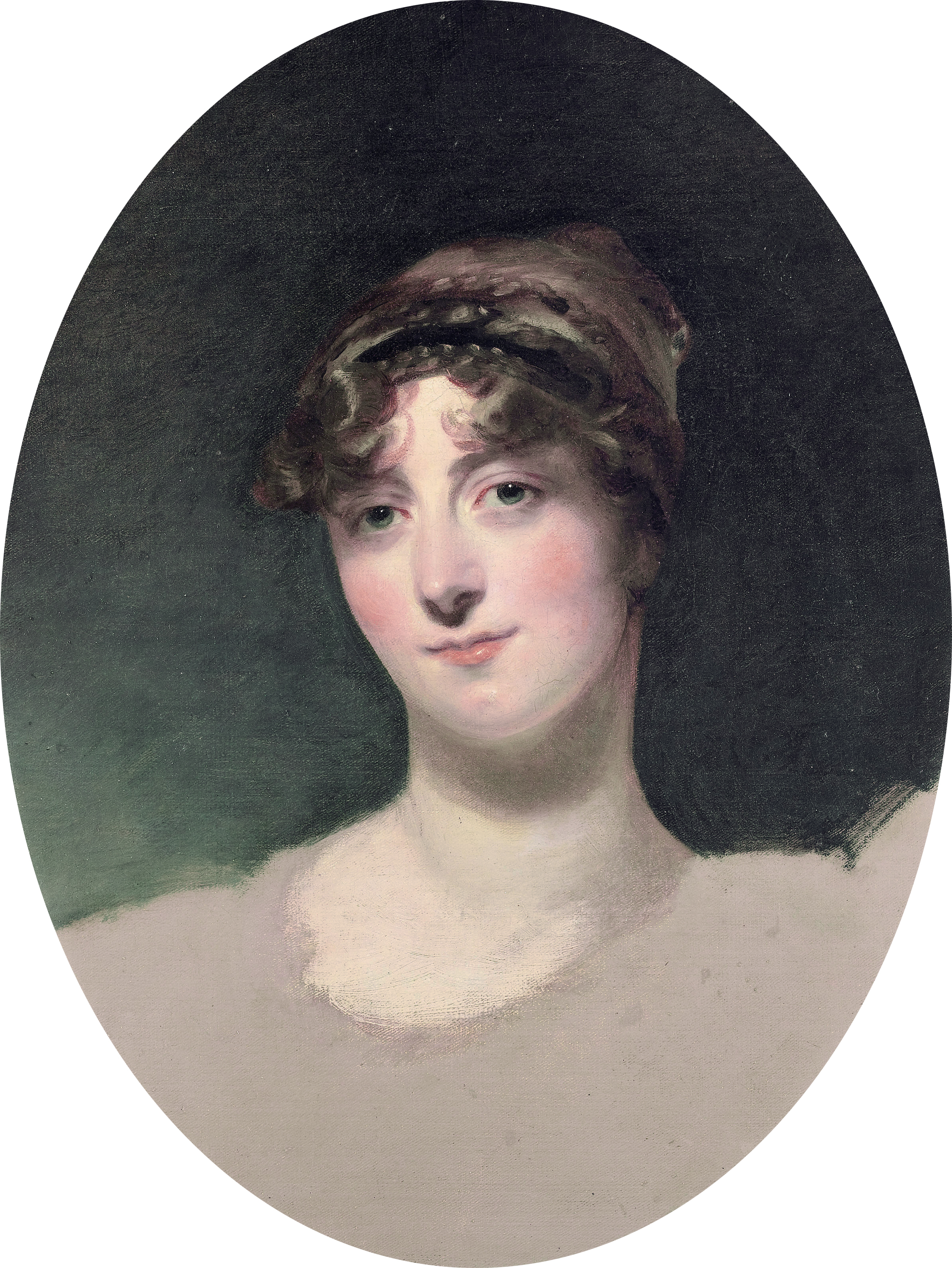 Caroline, Viscountess Sydney (d. 1805) was the second daughter of the 1st Earl of Leitrim. She married the 2nd Viscount Sydney as his second wife in 1805 oil on canvas 60.7 x 51.2cm